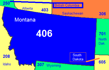 Area code map of Montana showing adjacent states and provinces.